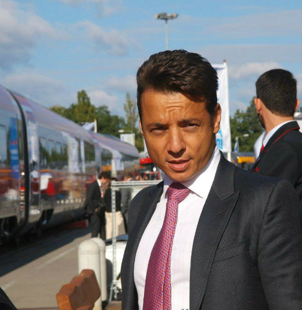 Stefano Siragusa Chief Executive Officer and General Manager at Ansaldo STS